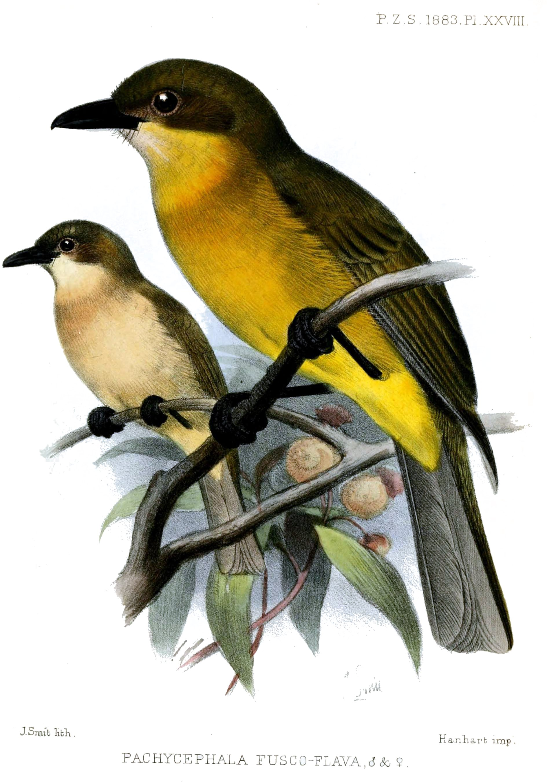 Pachycephala fuscoflava = now Pachycephala macrorhyncha fuscoflava